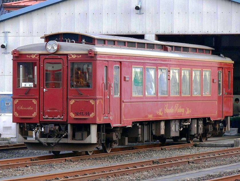 Sanriku Railway Type 36-600（602） DMU [Shiosai](Iwate,Japan).